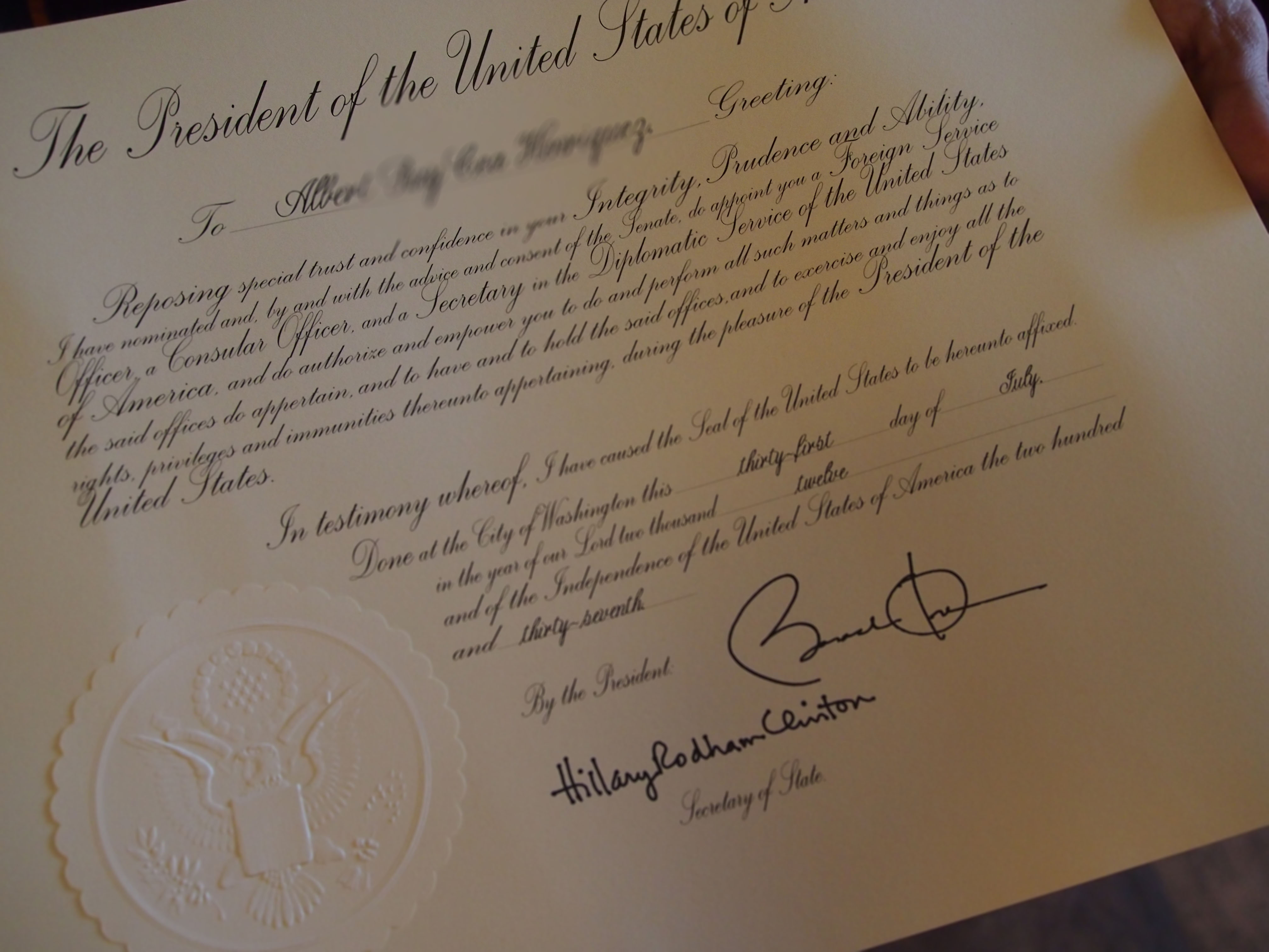 December 3 - The U.S. Consulate General in Amsterdam congratulates Vice Consul Albert Cea for receiving his Presidential commission as a tenured Foreign Service Officer. Tenured Foreign Service Officers, through confirmation of the U.S. Senate and attestation by the President, receive a commission into the Foreign Service and a commission certificate, signed by the President and the Secretary of State and affixed with the Great Seal of the United States.